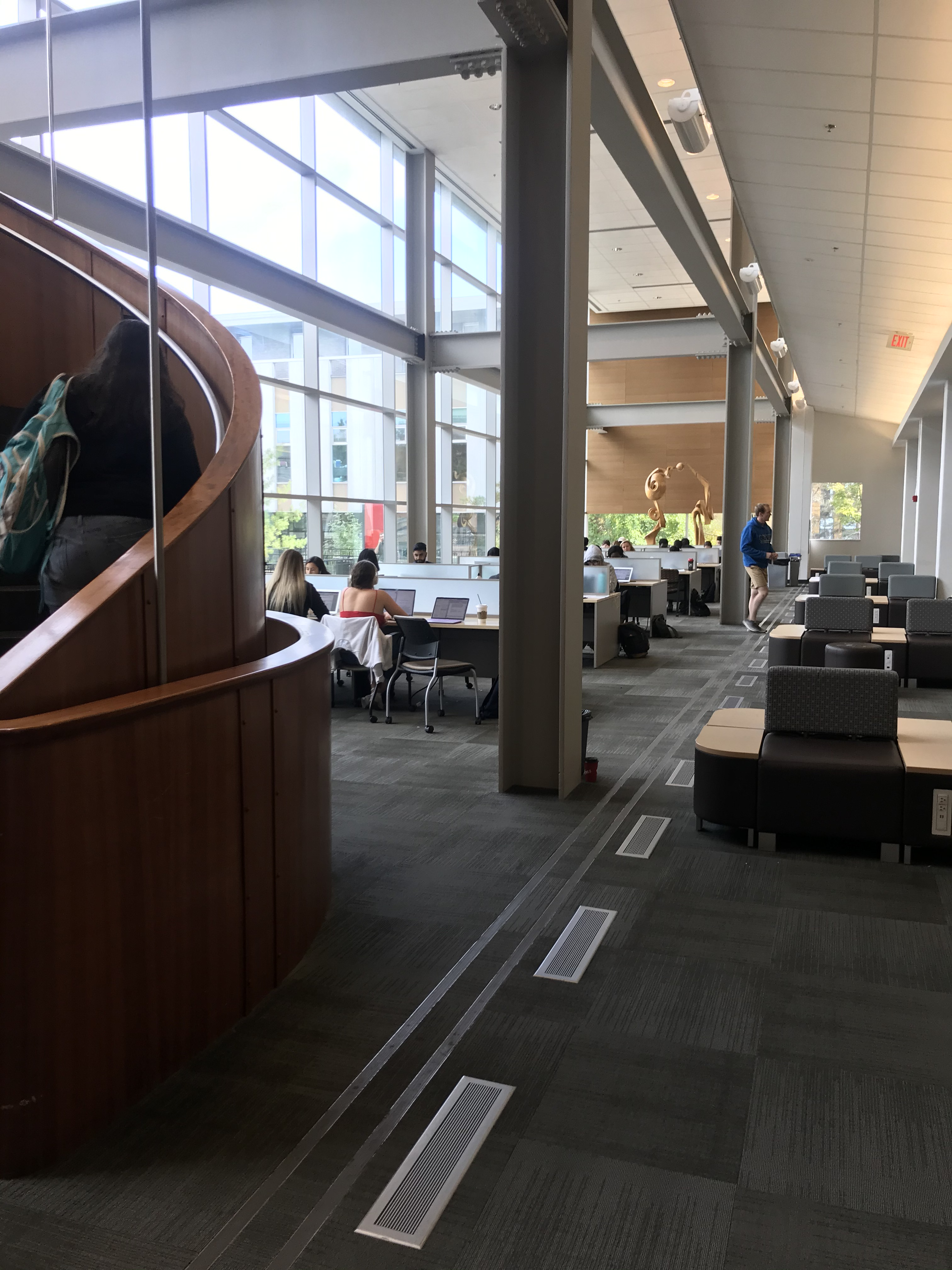 2nd Floor, MacOdrum Library, Carleton University